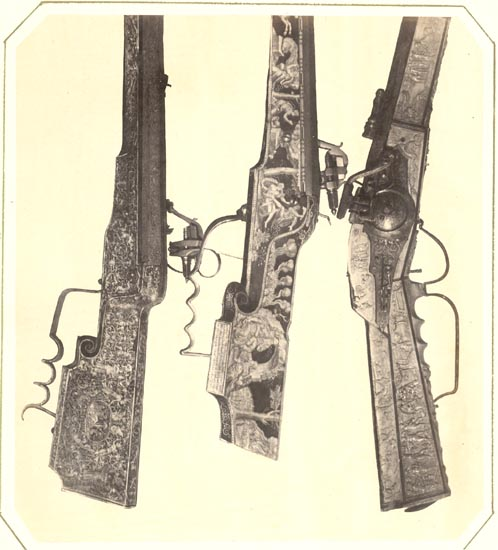 Armour / Rüstung description: Three Decorated Guns Medium: Salt print Photo Date: 1857 Print Date: 1857 Dimensions: 10 x 8-15/16 in. (254 x 227 mm)